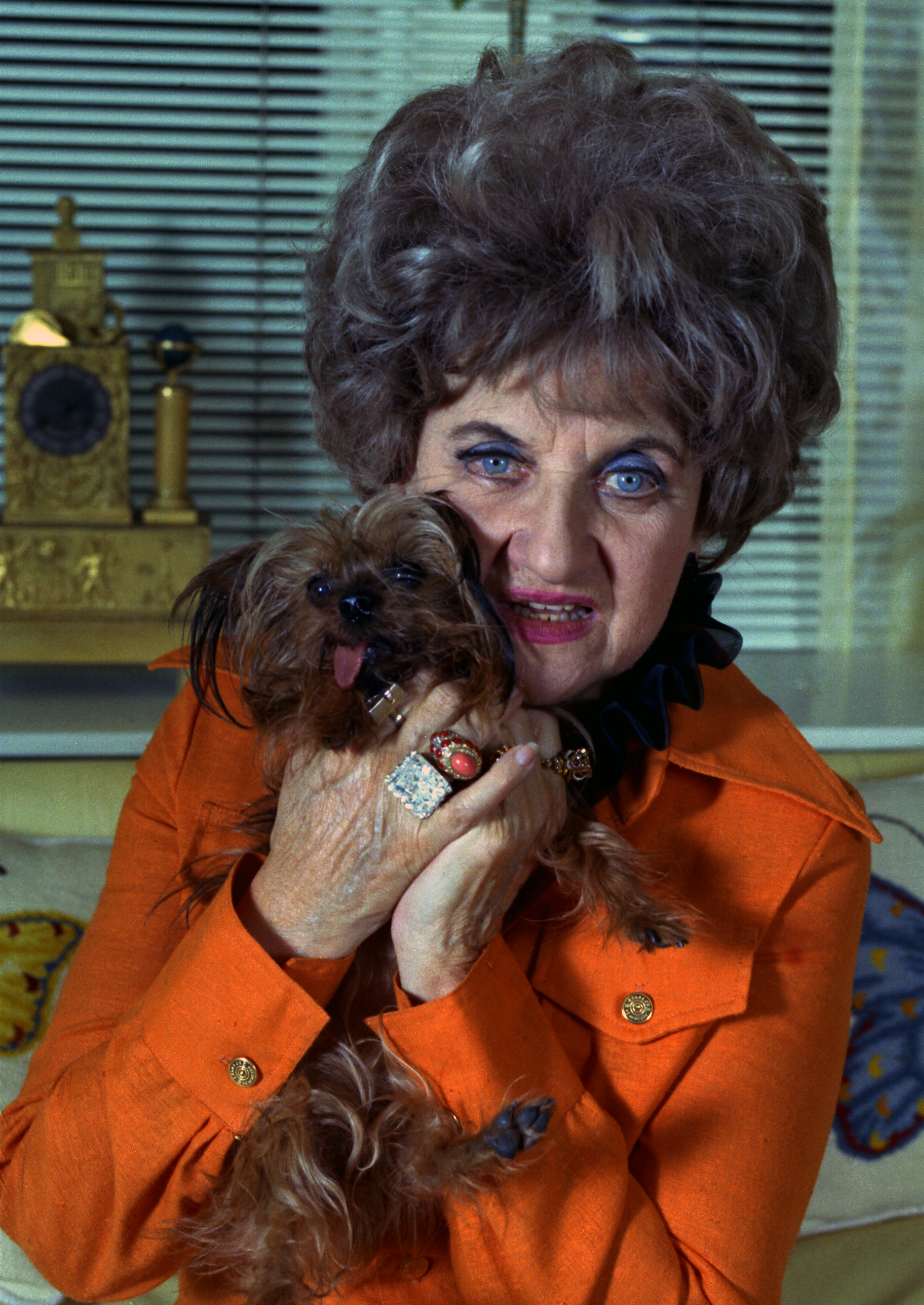 Hermione Gingold with her dog in her New York apartment.